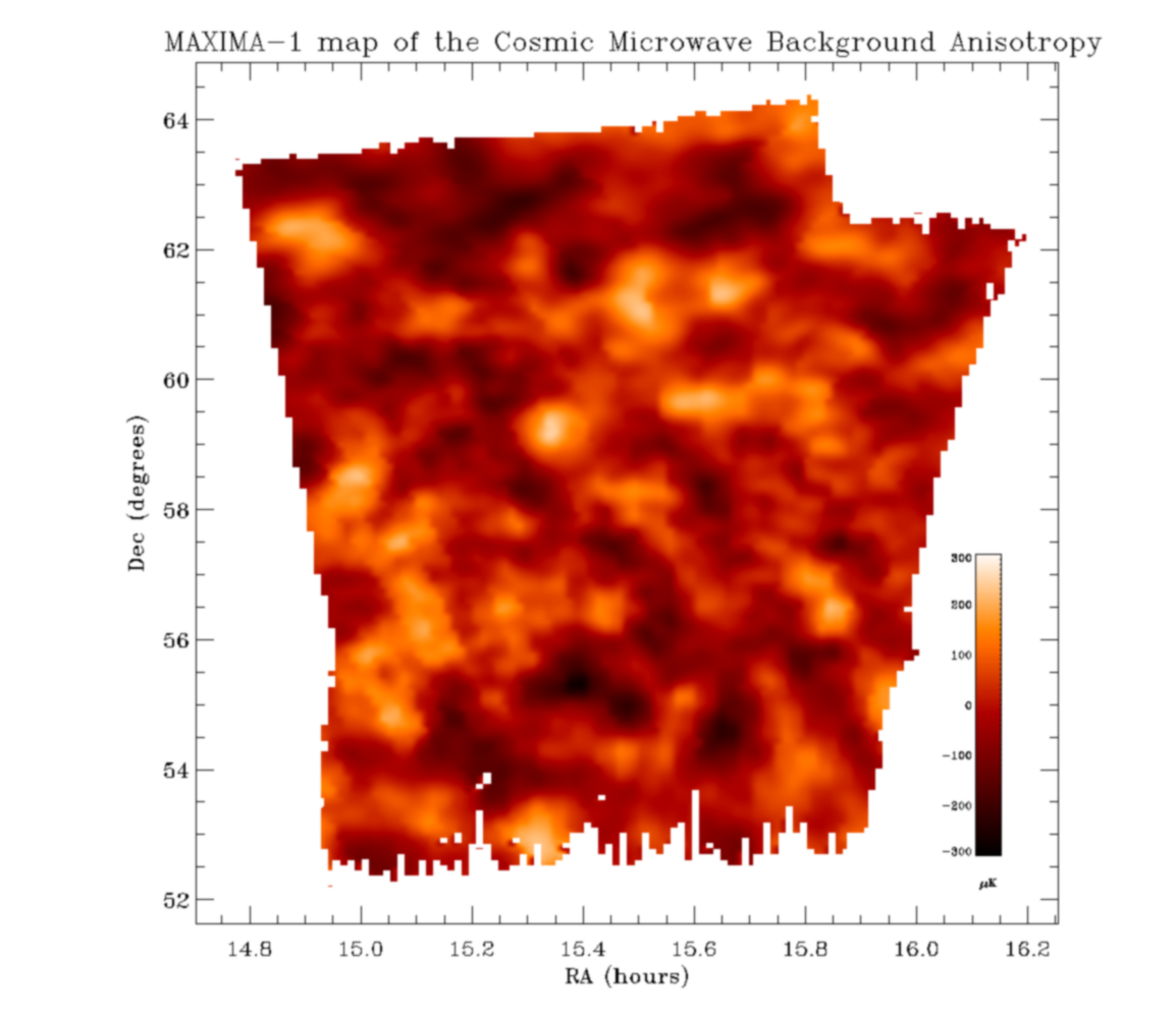 credit to "The MAXIMA Collaboration" according to the website you're free to copy the image but you've to credit